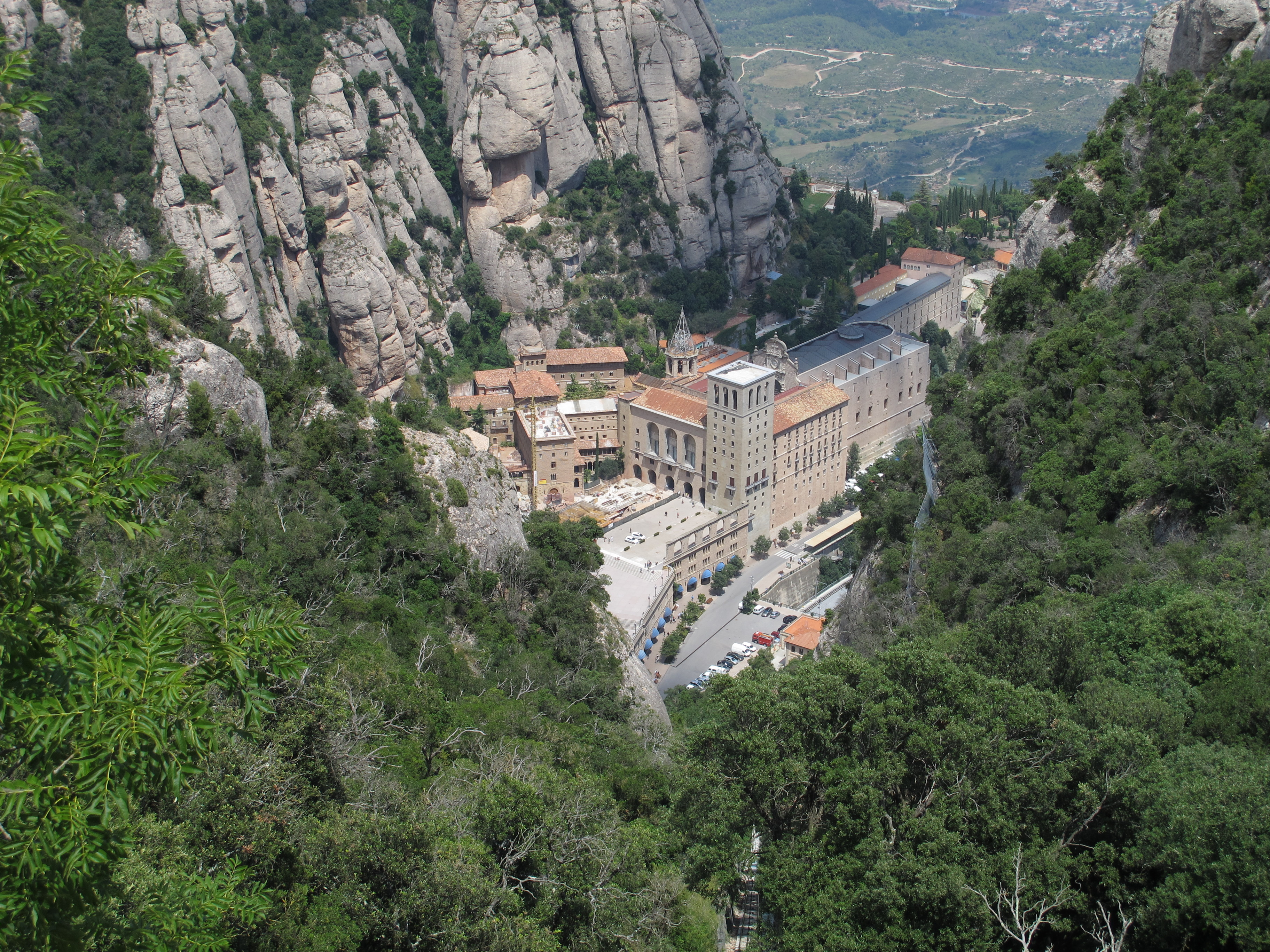 Monastery Montserrat in Catalonia, Spain: View from above